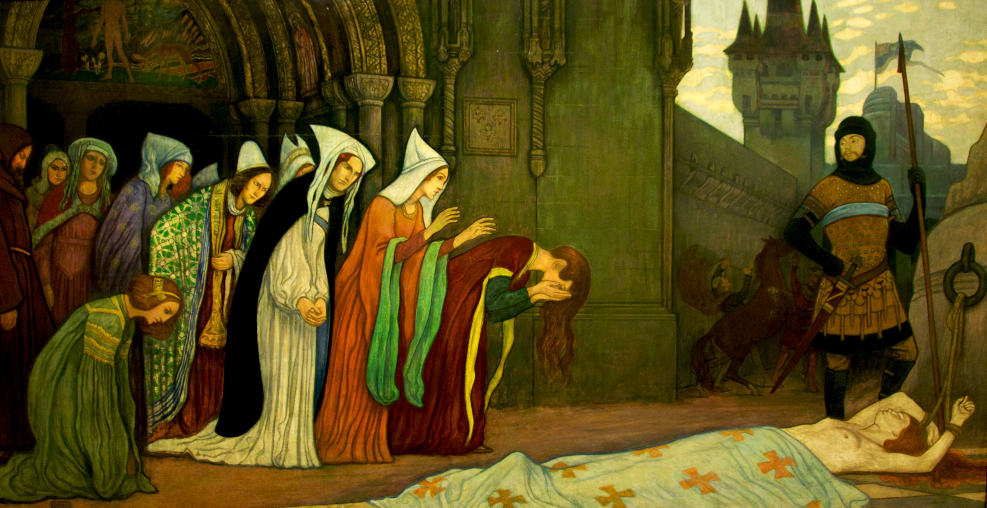 The History of Klára Zách II., 1911 by Alandár Körösfõi. Hungarian National Gallery